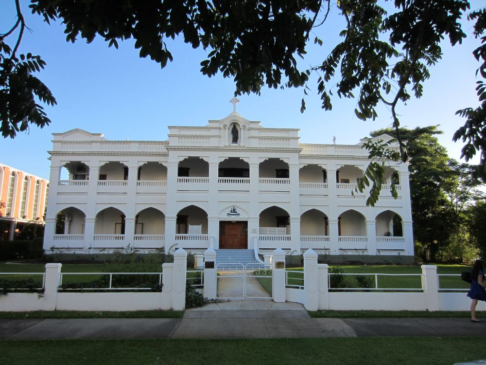 Bishop's House, Cairns, 2015